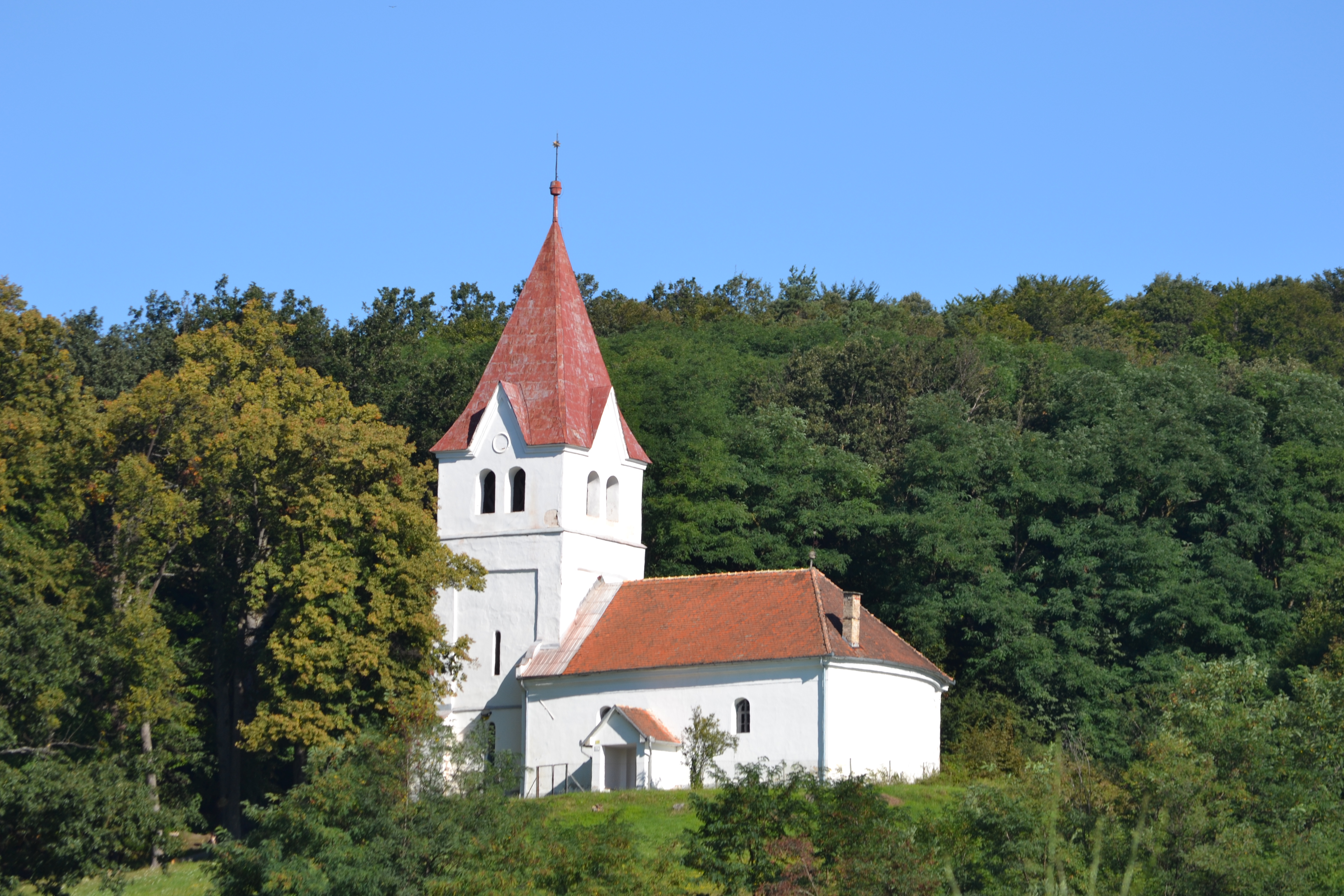 Evangelical church in Ozdín, was built in 1813Slovenčina: Evanjelický kostol v Ozdíne, bol postavený v roku 1813